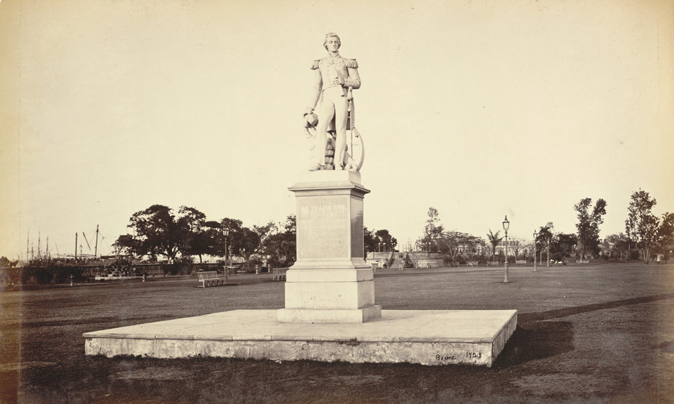 Photograph of Sir William Peel's statue in Eden Gardens from 'Views of Calcutta and Barrakpore was taken by Samuel Bourne in the 1860s. Sir William Peel (1824-1858) was a son of Sir Robert Peel, Prime Minister of Britain. During the Uprising of 1857-1858, he was the commander of the Shannon and lead a naval brigade. He died in Kanpur of smallpox in 1858.